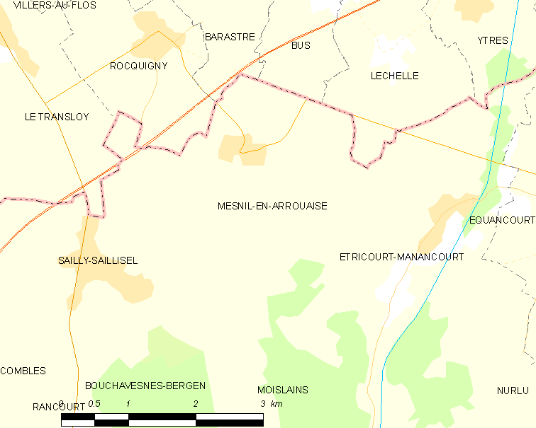 Map of French municipality Mesnil-en-Arrouaise